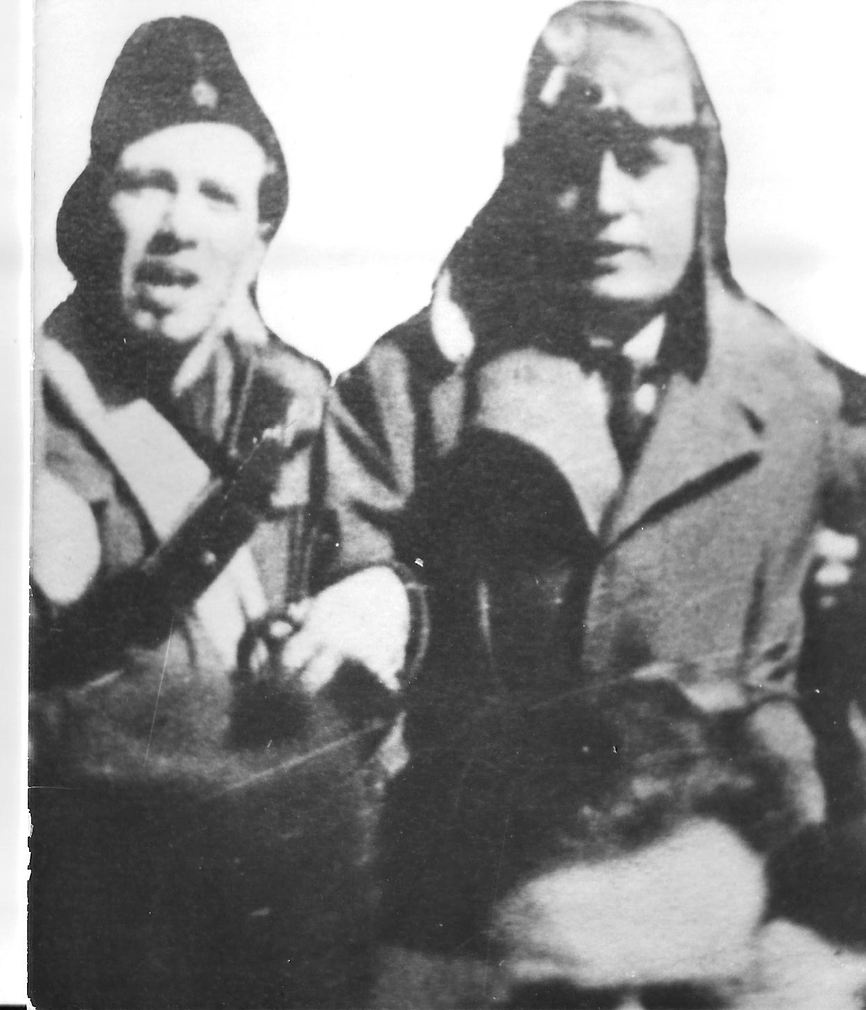 Giovanni Dall'Orto and Benito Mussolini in the 1920s. Anonymous picture from the private archive of Dall'Orto family.